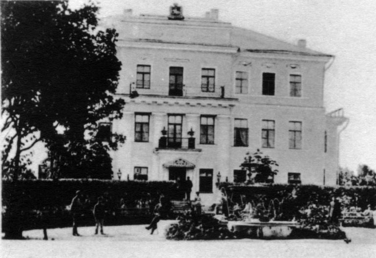 postcard: Governor's Palace in Vitebsk, Belarus